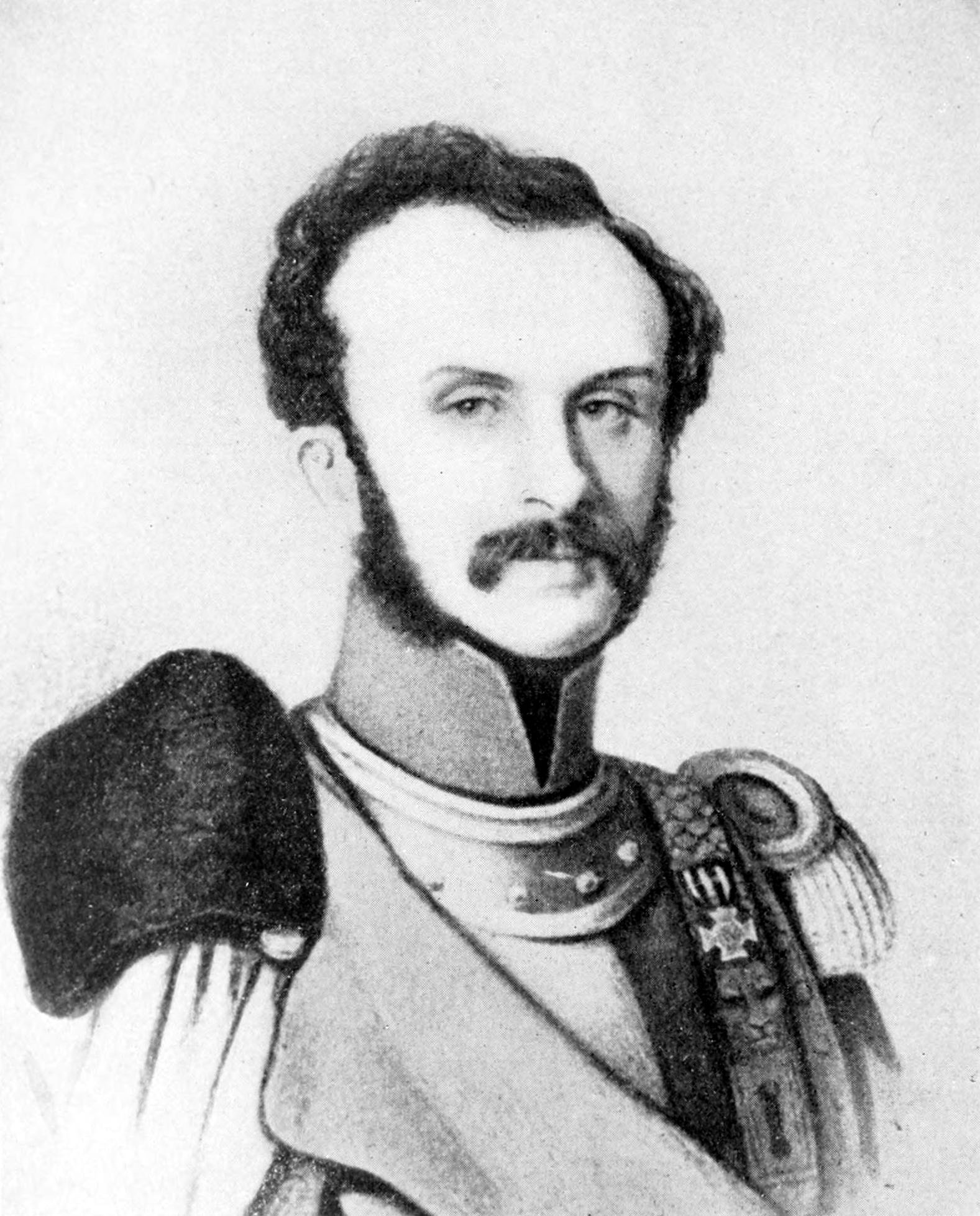 Portrait of Dutch soldier and United States academic Jean Roemer in early life as a soldier.